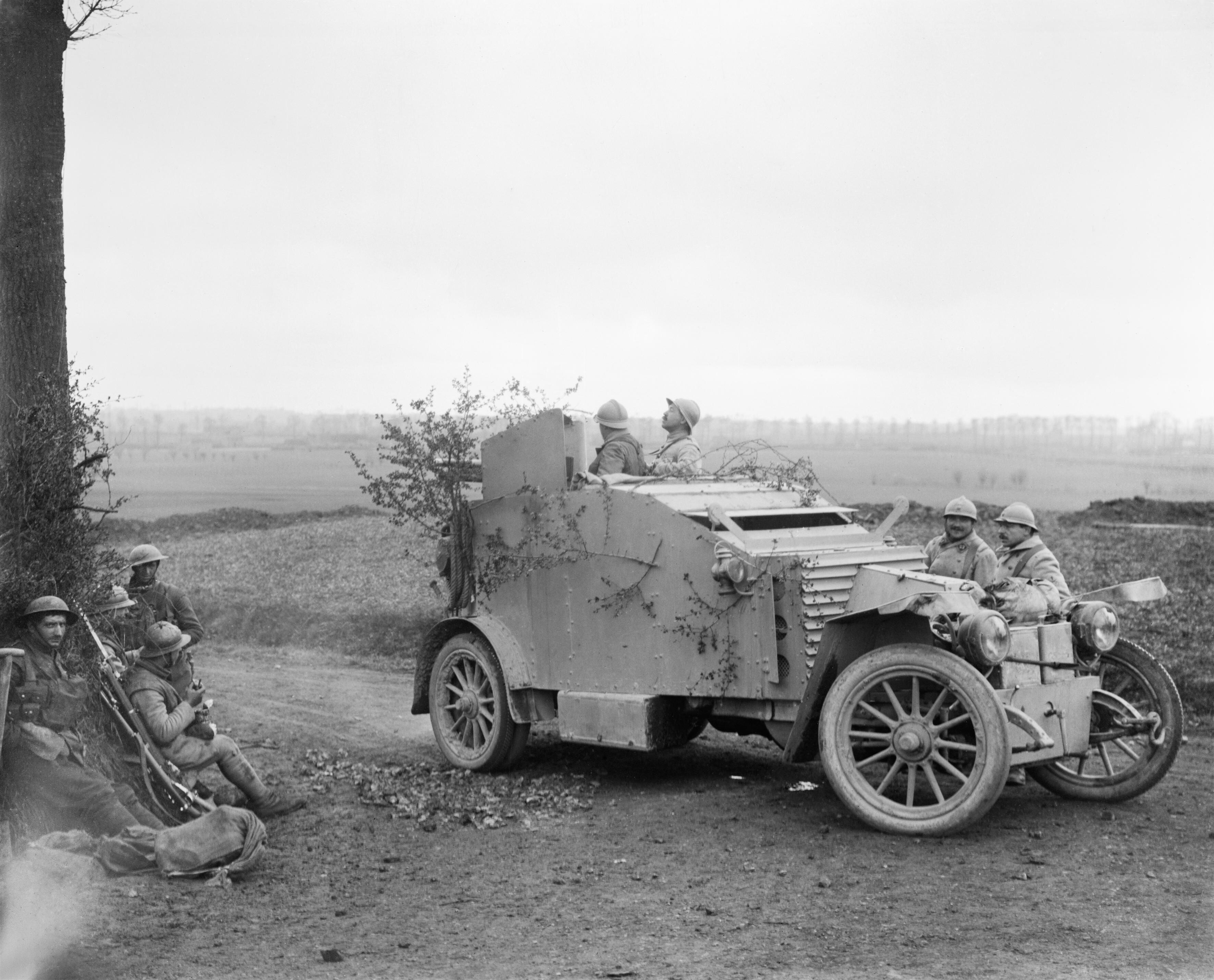 The German Spring Offensive, March-july 1918 The Battle of the Lys. A French armoured car supporting two companies of the 18th Battalion, Middlesex Regiment (Composite Force, 15th Corps). Meteren, 16 April 1918.